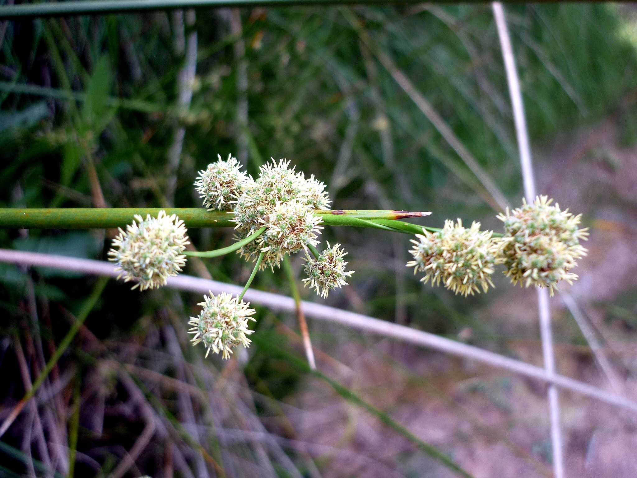 Scirpus holoschoenus. In Torà (Segarra - Catalunya). To 570 m. altitude